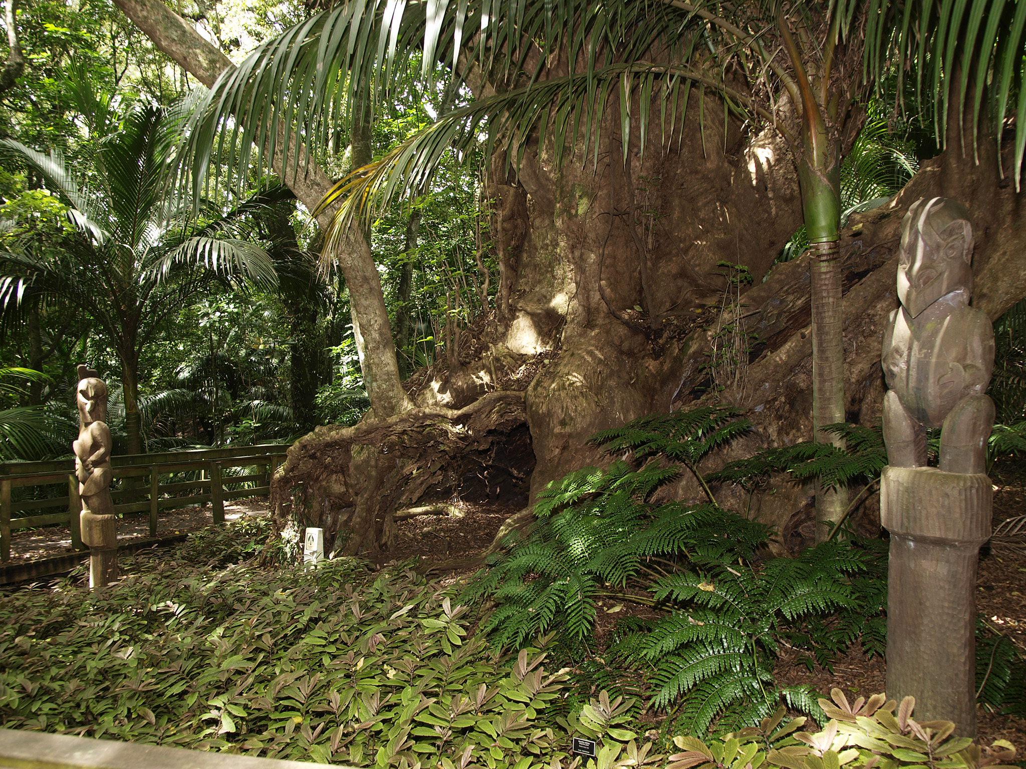 Puriri Burial Tree, Hukutaia Domain, Opotiki, Bay of Plenty, New Zealand.